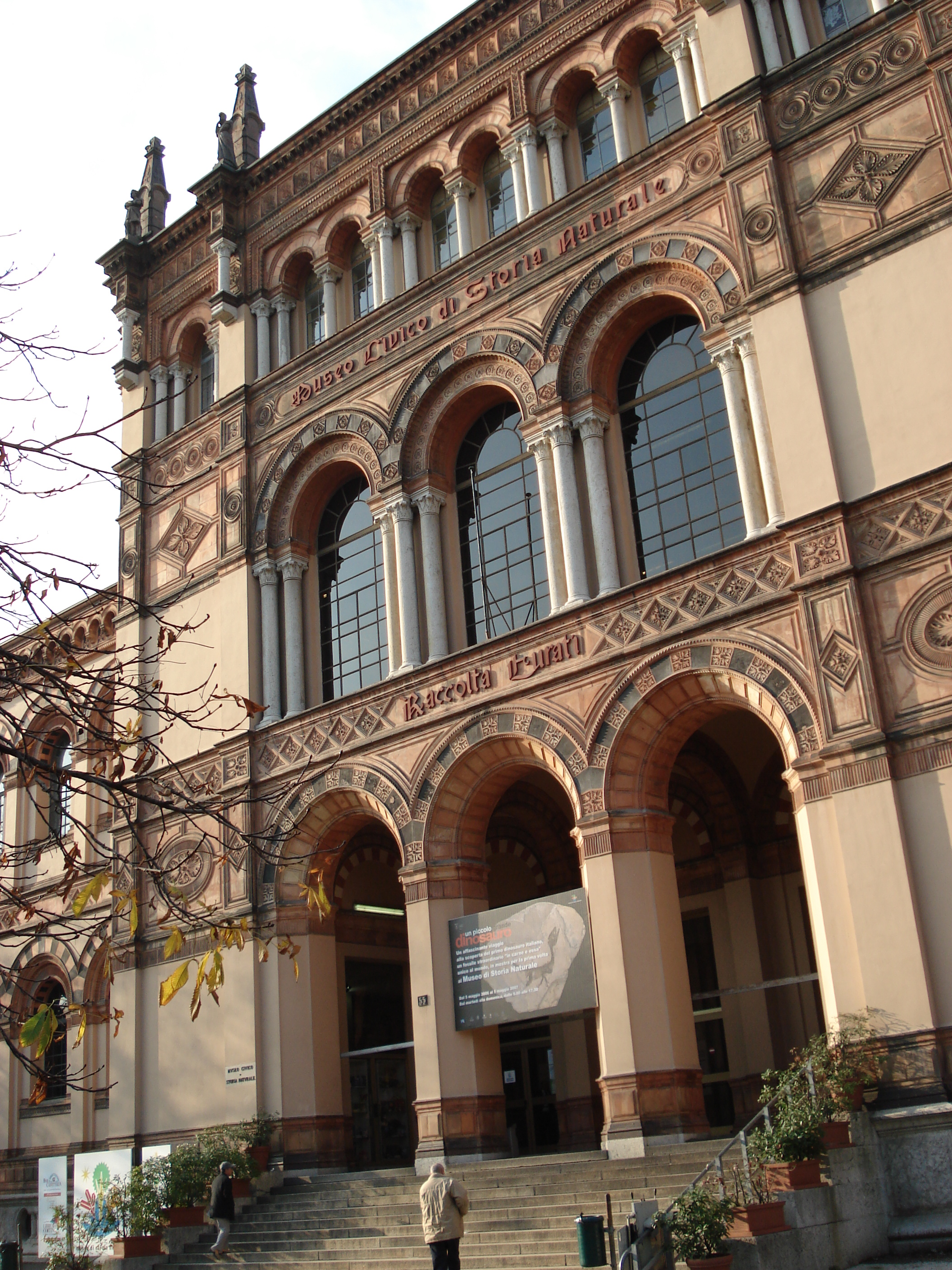 Entrance to the Natural history museum in Milan, Italy. Picture by Giovanni Dall'Orto, december 20 2006.